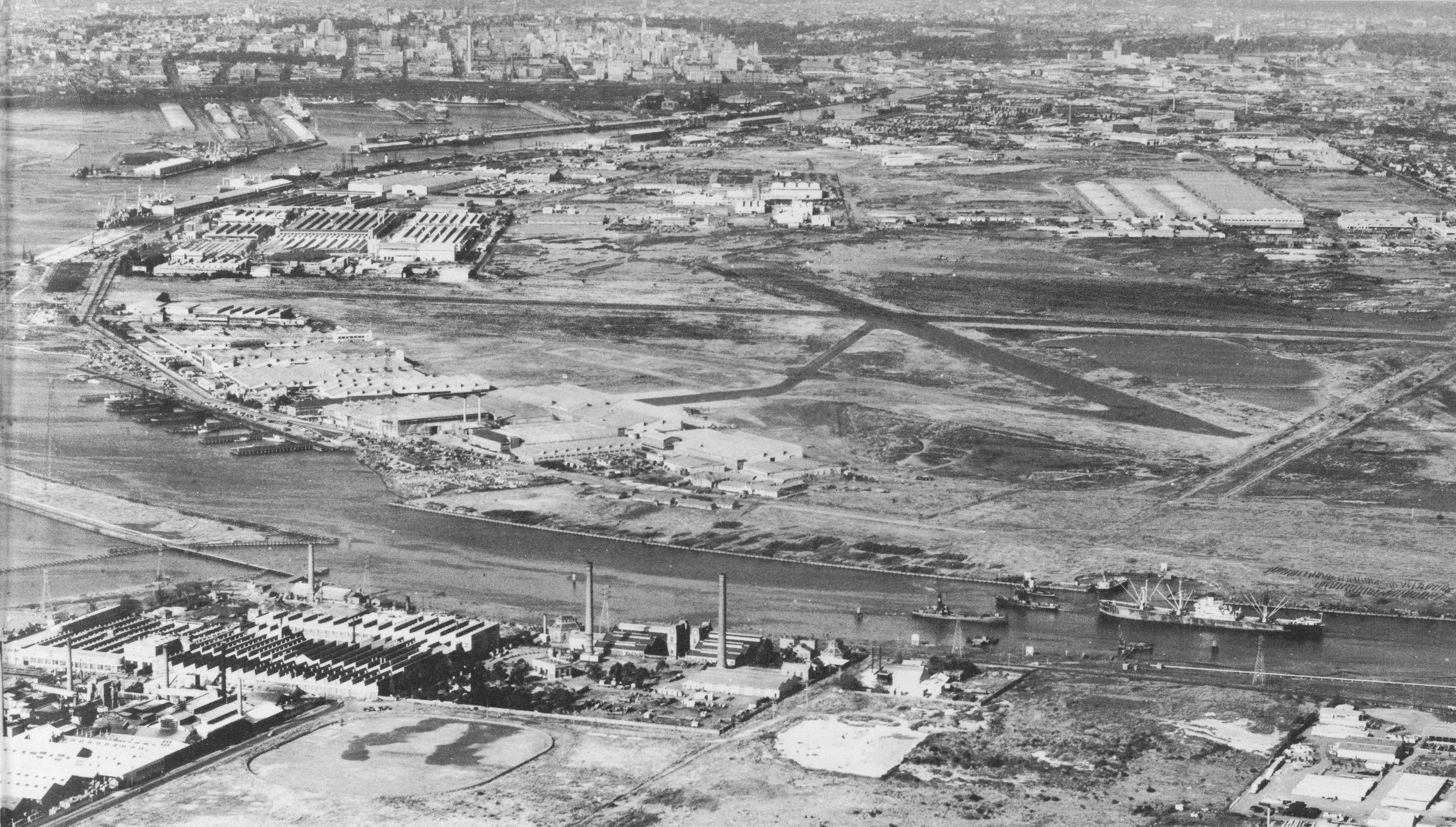 Aerial view of Fishermans Bend, Victoria, showing the following major organisations along the upper side of the Yarra River: the Government Aircraft Factories, Commonwealth Aircraft Corporation, General Motors Holden and the Aeronautical Research Laboratories. The Fishermans Bend aerodrome is seen behind these facilities. The Spotswood pumping station is seen on the lower side of the river.